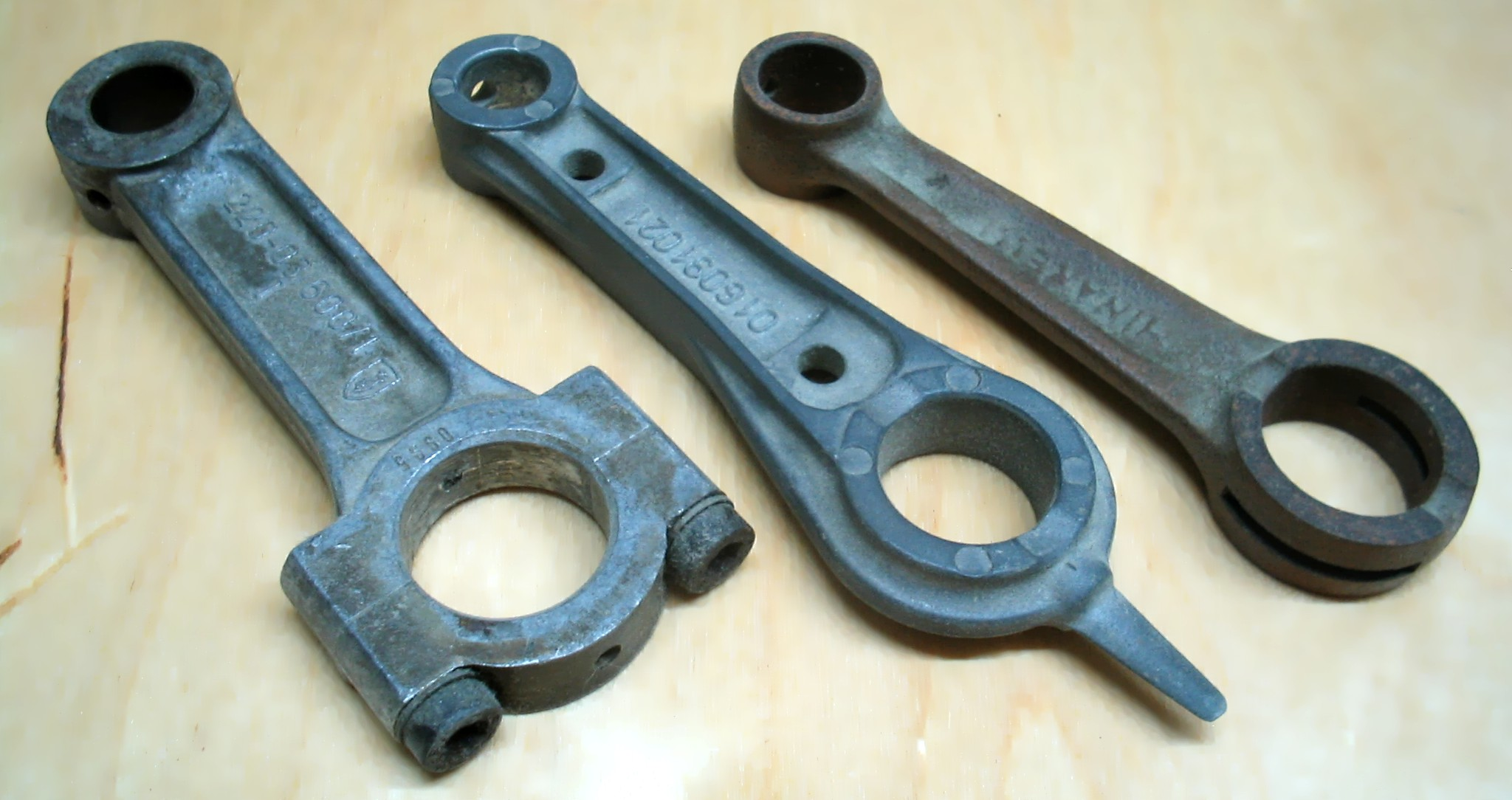 3 different connecting rods, of which the left and the center one are made of aluminum, the connecting rod to the right (for endothermic engine) of steel. The left connecting rod (also for endothermic engine) has a modular head and the foot equipped with a bushing, the central rod has an oil drip rod equipped with pats